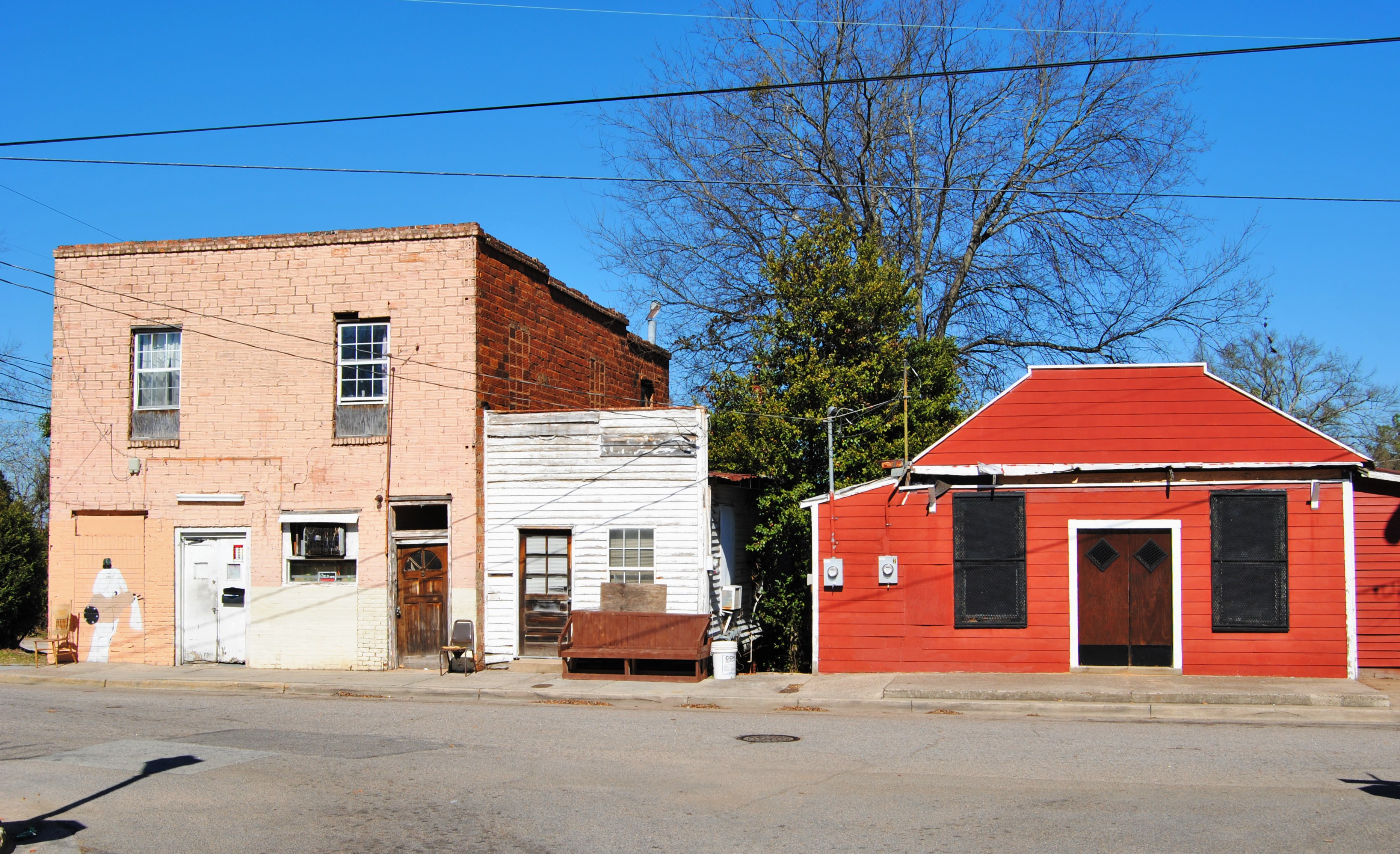 Business section located at the end of Fleming Avenue, photographer looking north.